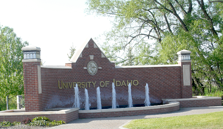 University of Idaho Moscow, Idaho East entrance of the campus (built 2001)at Sweet Ave. & S. Main St.